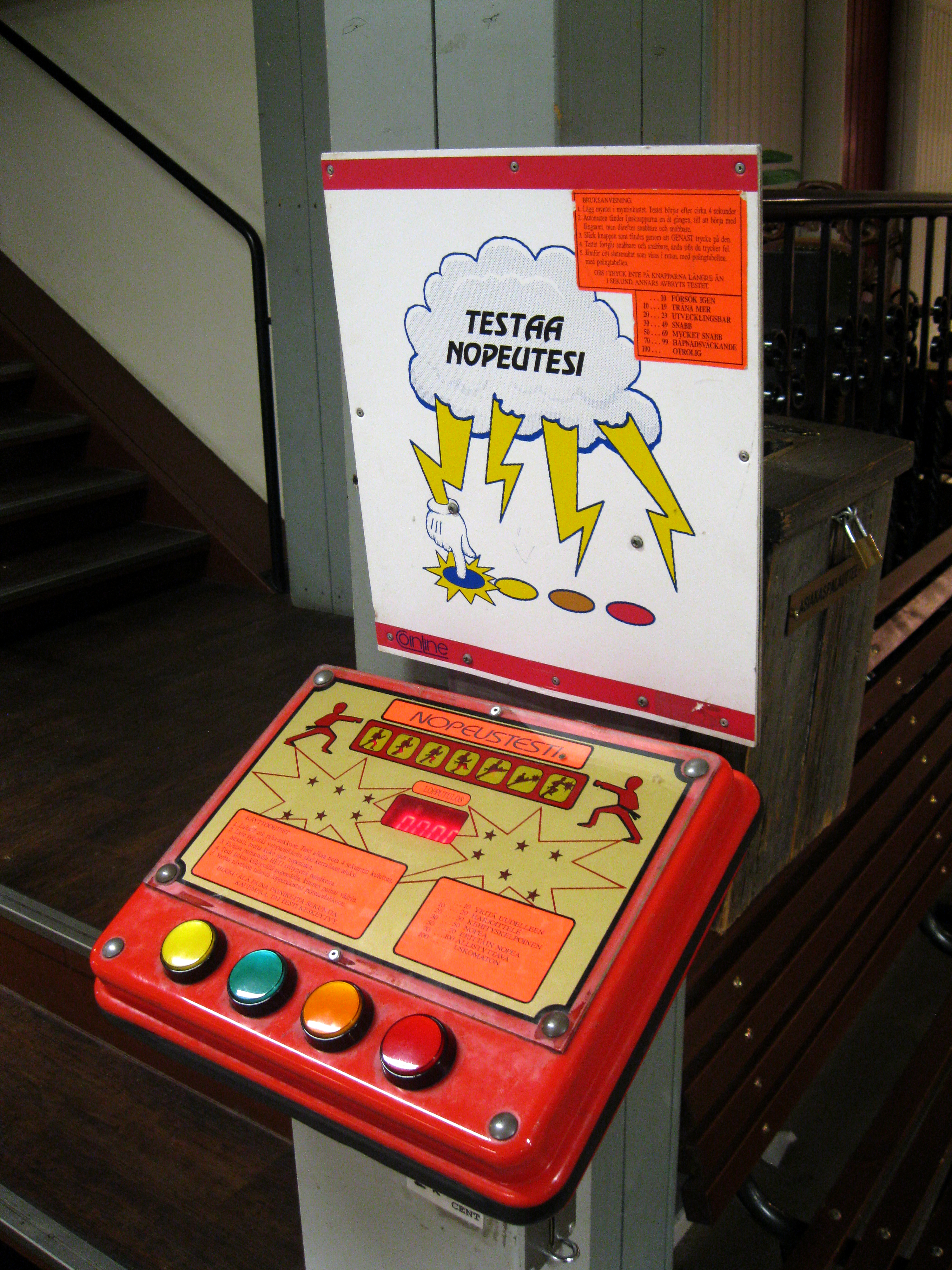 The Speed Test game.